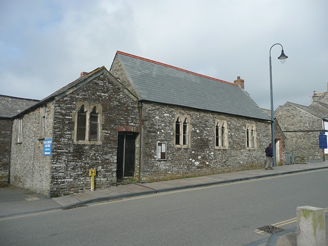 Former School, Tintagel Now a community hall.